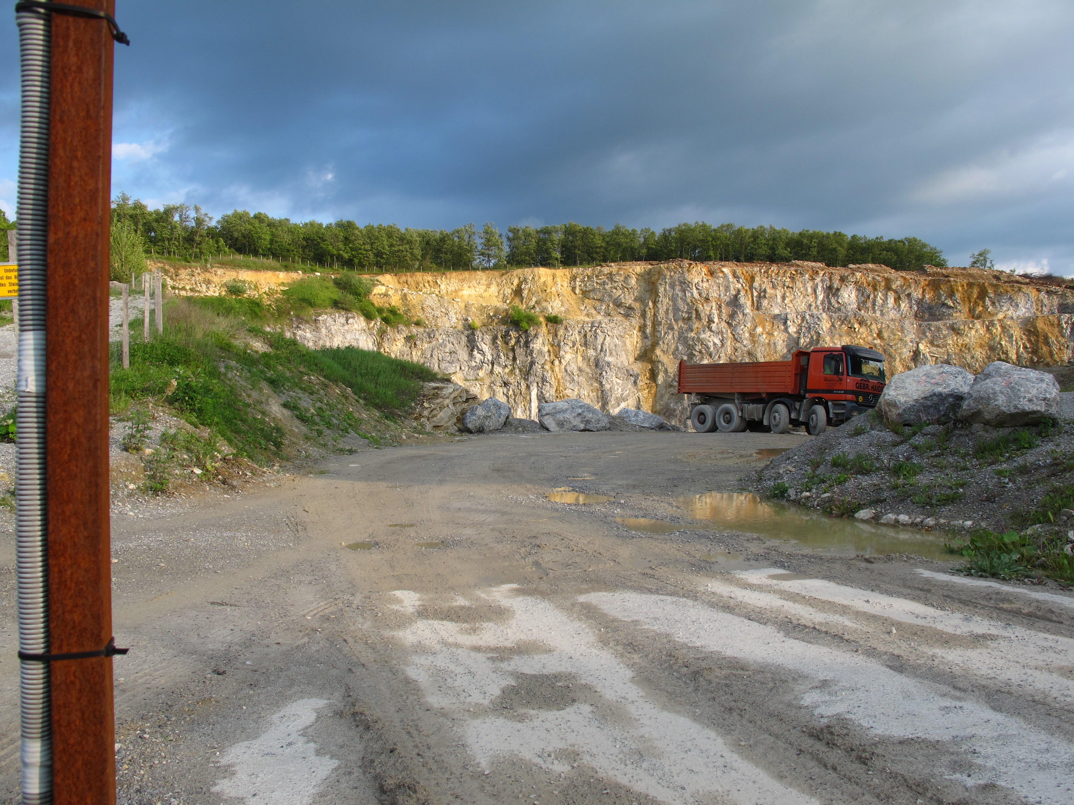 Cava near the village Mannersdorf am Leithagebirge / Lower Austria / Austria / EU. In the background, a red truck is to transport the stones. From the rain of the previous day is a puddle on the unpaved road. On the left is part of a metal fence with an electric tube.